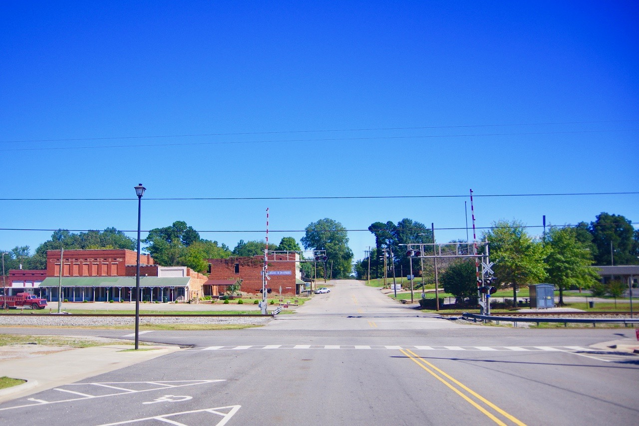 View along Main Street in Cherokee, Alabama, United States.